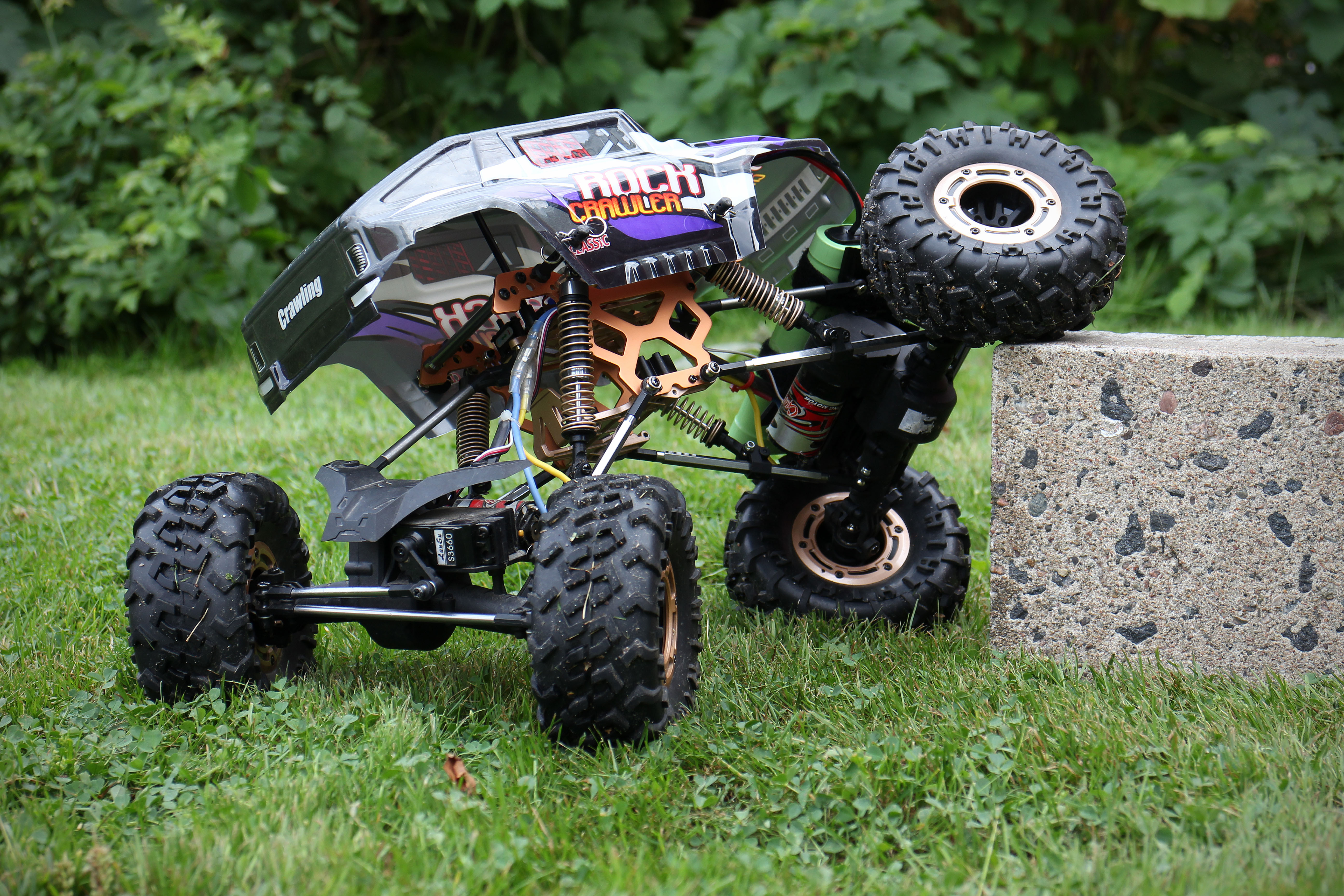 R/C car (Radio Controlled car) rock crawler.